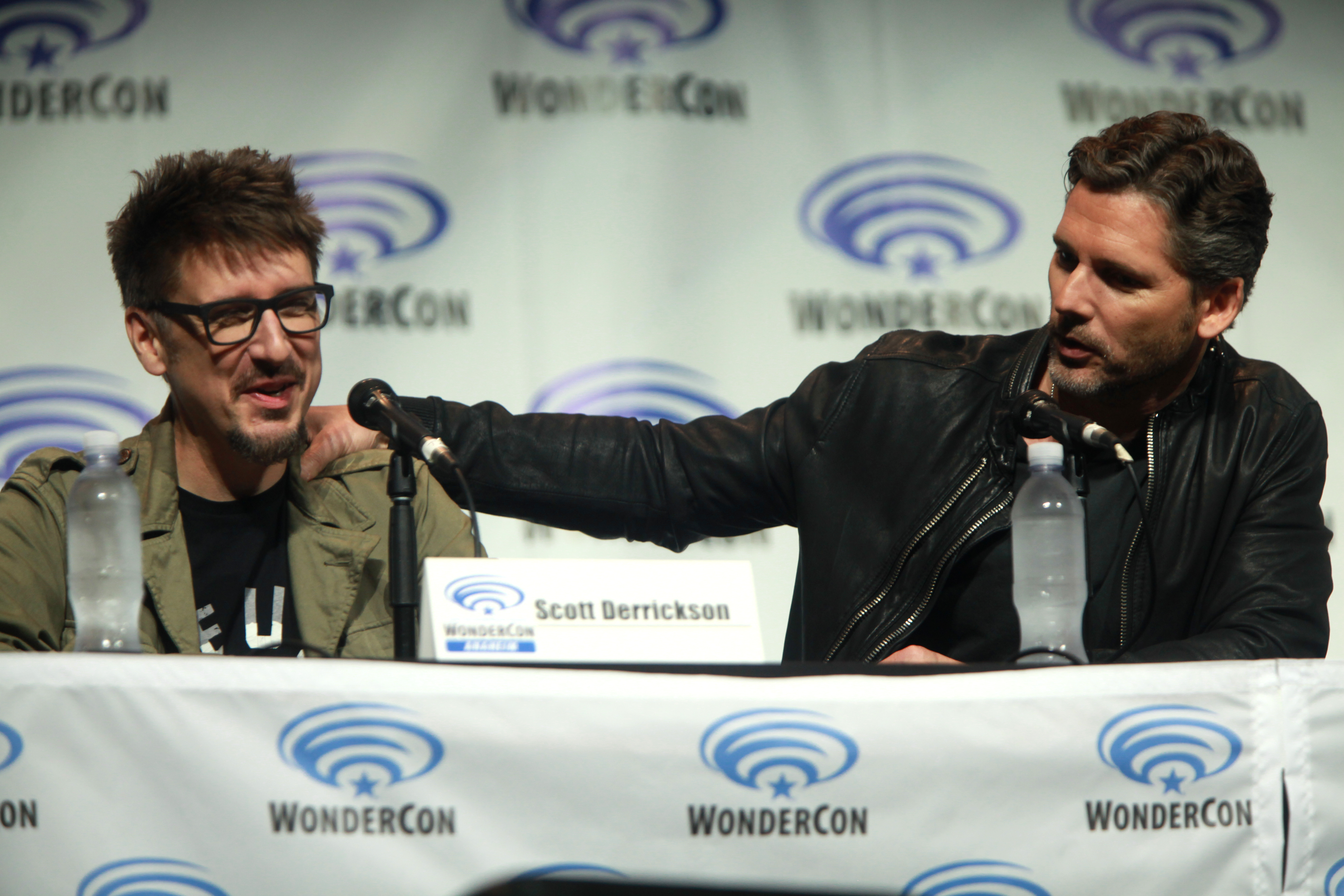 Scott Derrickson and Eric Bana speaking at the 2014 WonderCon, for "Deliver Us from Evil", at the Anaheim Convention Center in Anaheim, California.